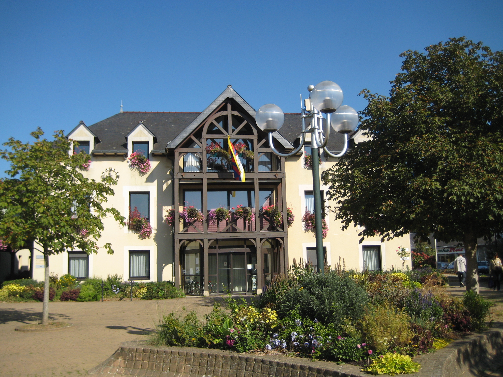 Town hall of Acigné